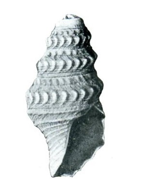 Cryptogemma quentinensis Dall, 1919; family Turridae